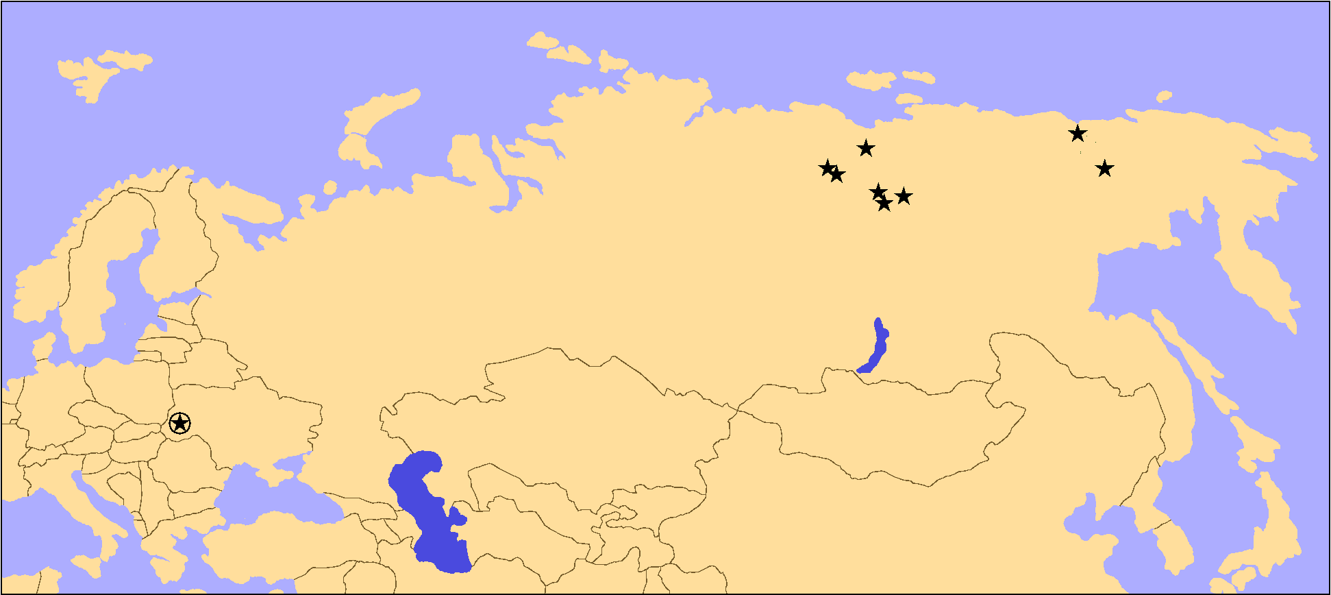 Distribution of Woollyrhino mummies, star: Permafrost, star and circle: asphalt